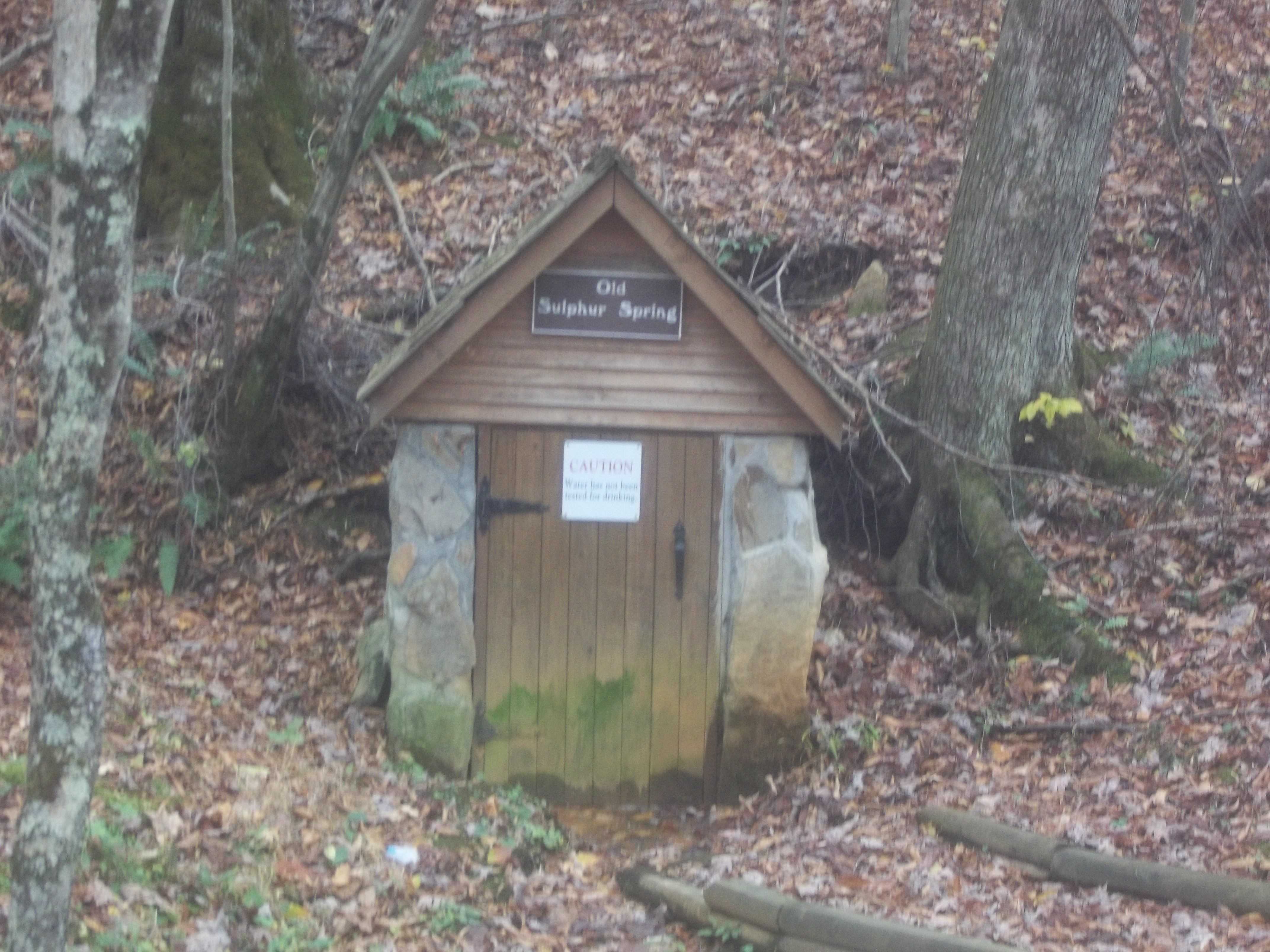 Old Sulfur Spring Springhouse